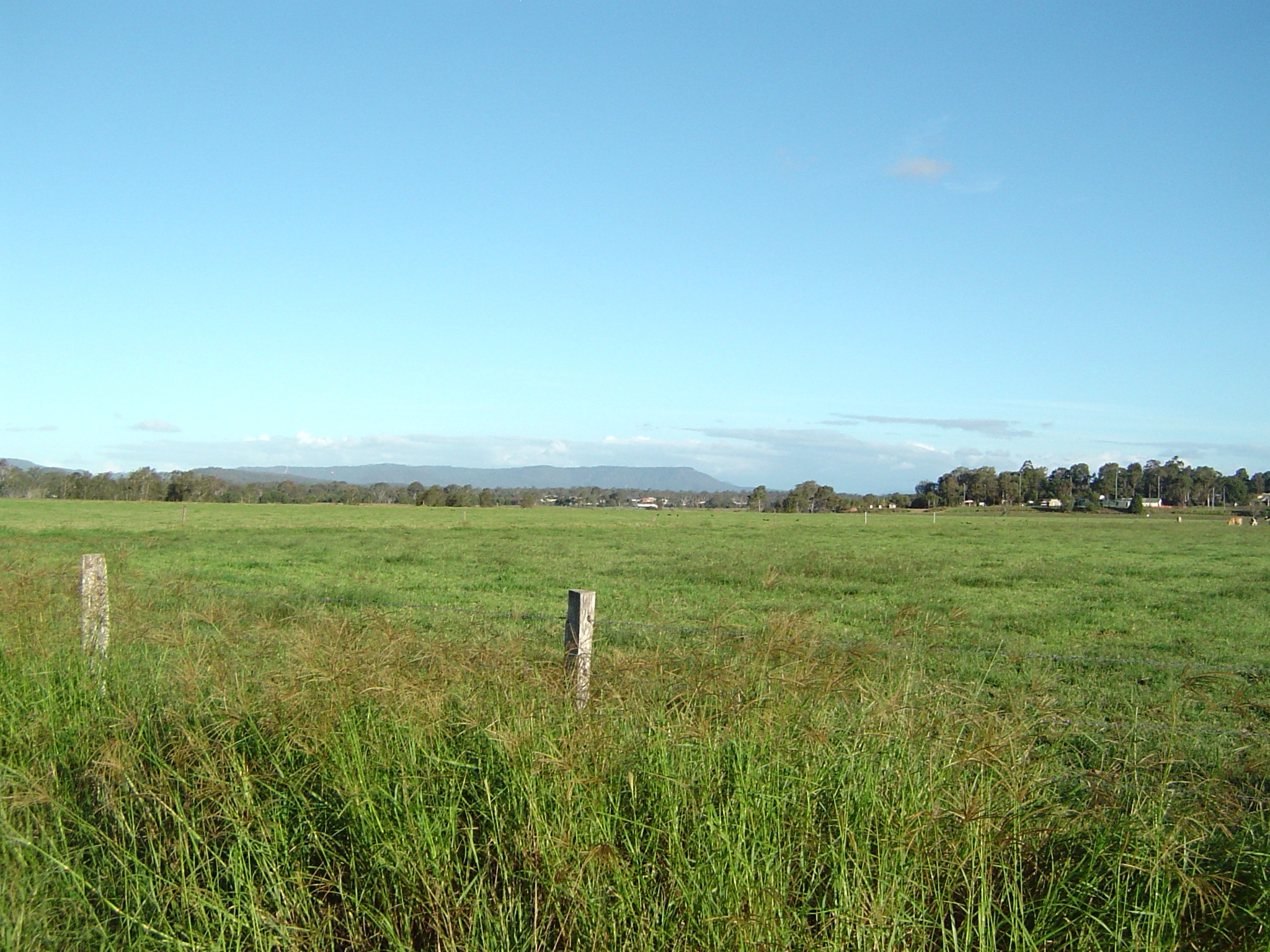 Photo of paddocks and Tamborine Mountain from Chambers Flat Logan City, Queensland, Australia.